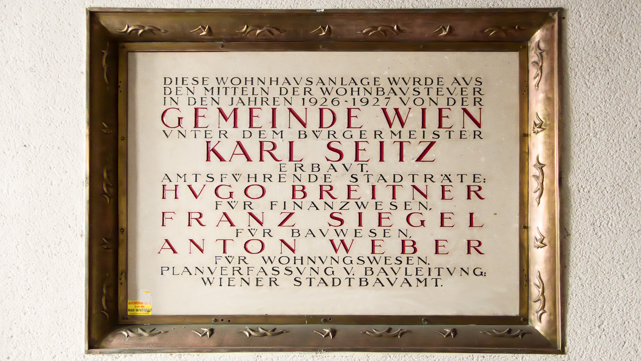 Residential Building Svoboda-Hof in Vienna Döbling